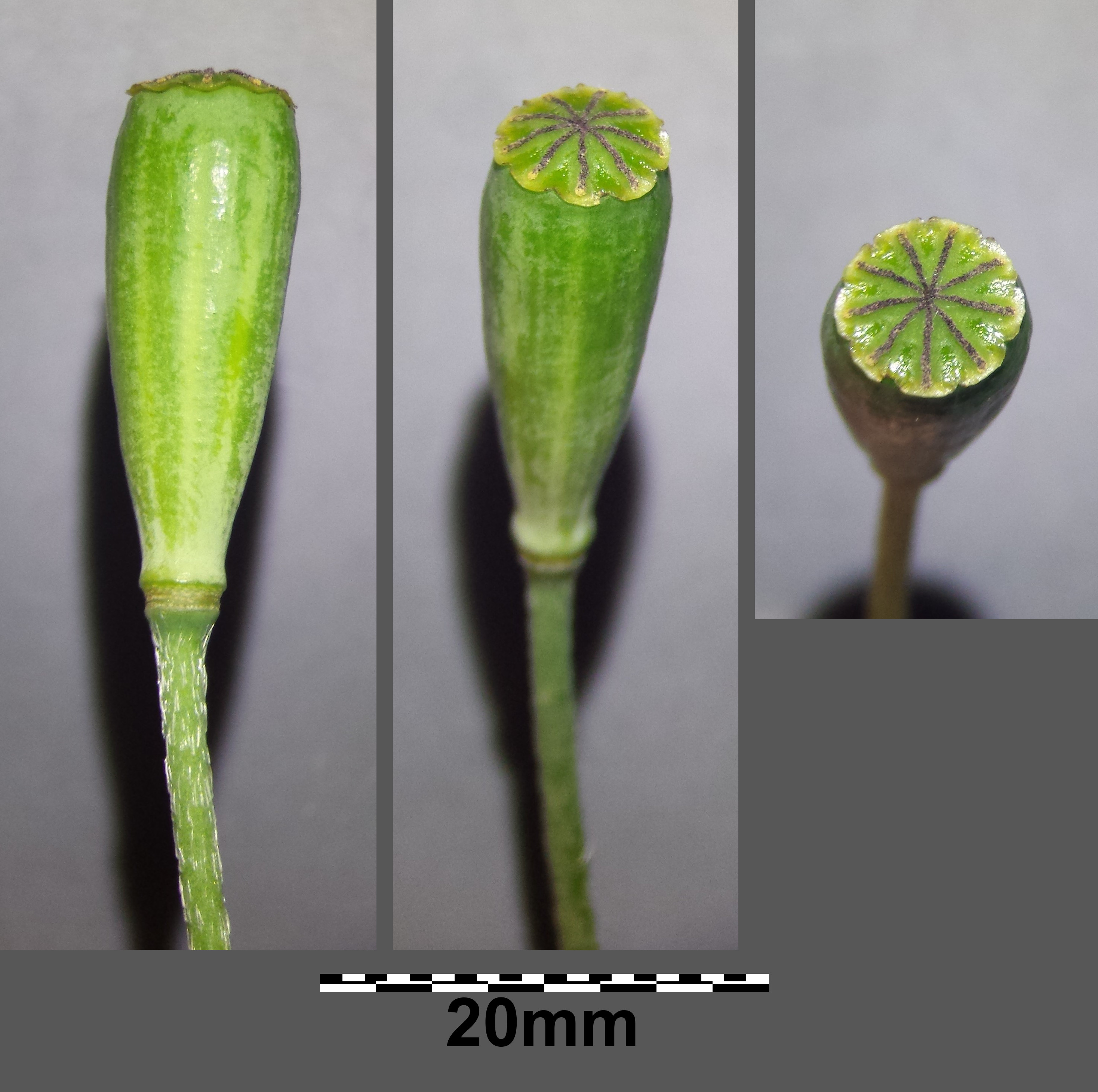 Capsule fruit Taxonym: Papaver dubium subsp. dubium ss Fischer et al. EfÖLS 2008 ISBN 978-3-85474-187-9 Location: next to Stockerau, district Korneuburg, Lower Austria - ca. 170 m a.s.l. Habitat: dam